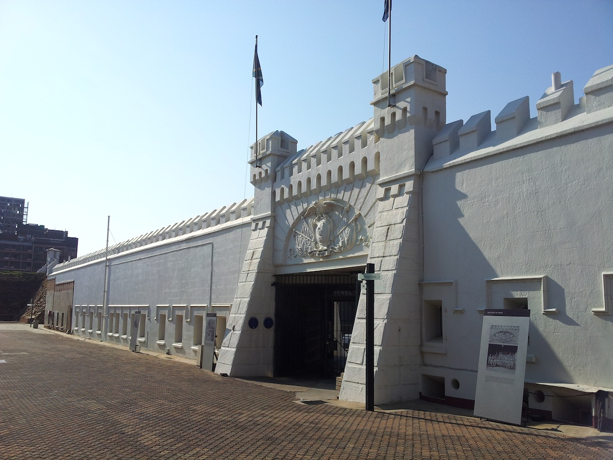 This media shows a South African Protected Site with SAHRA file reference 9/2/228/0035.